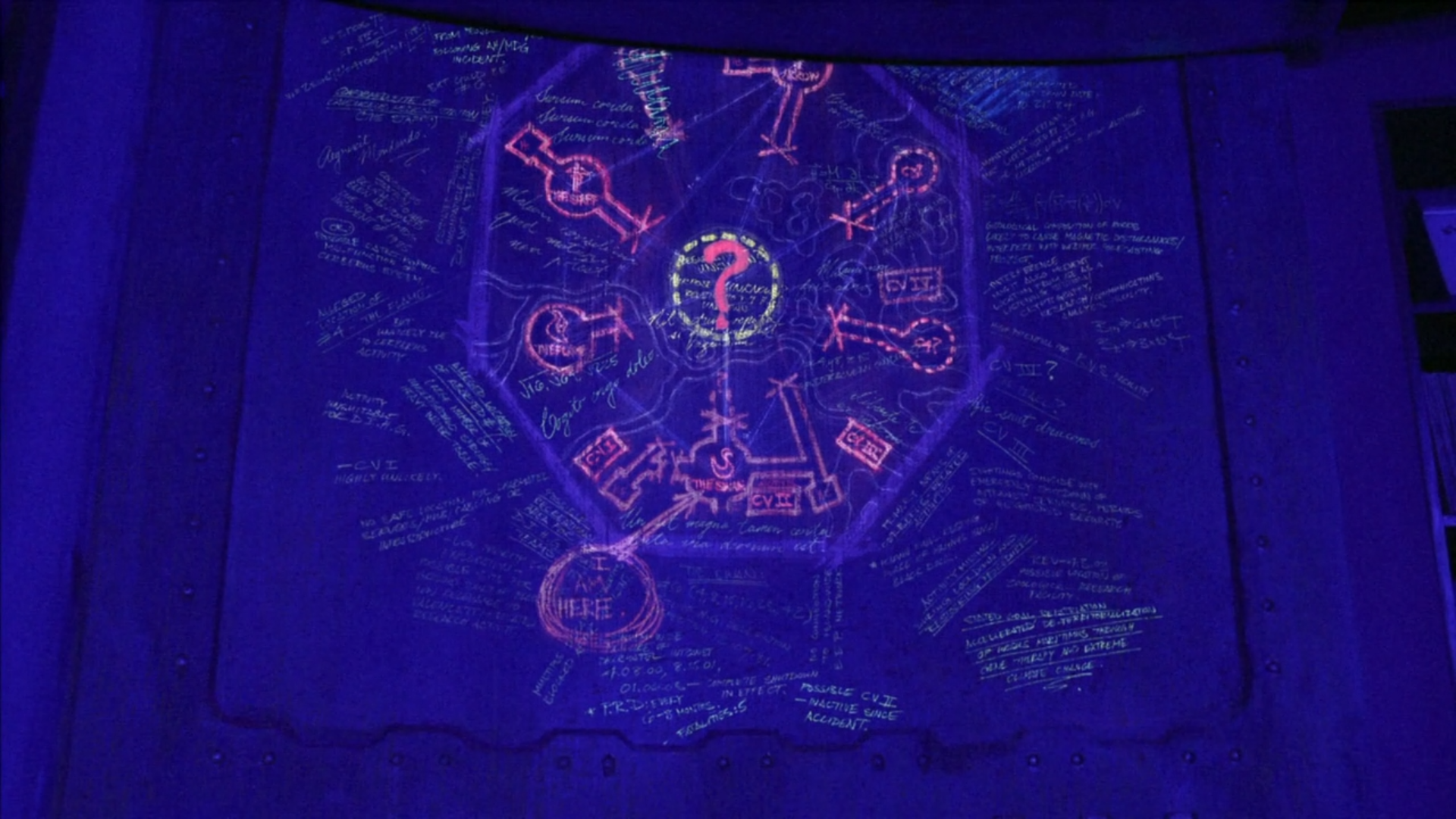 The mysterious map on the blast door, revealed by blacklight.